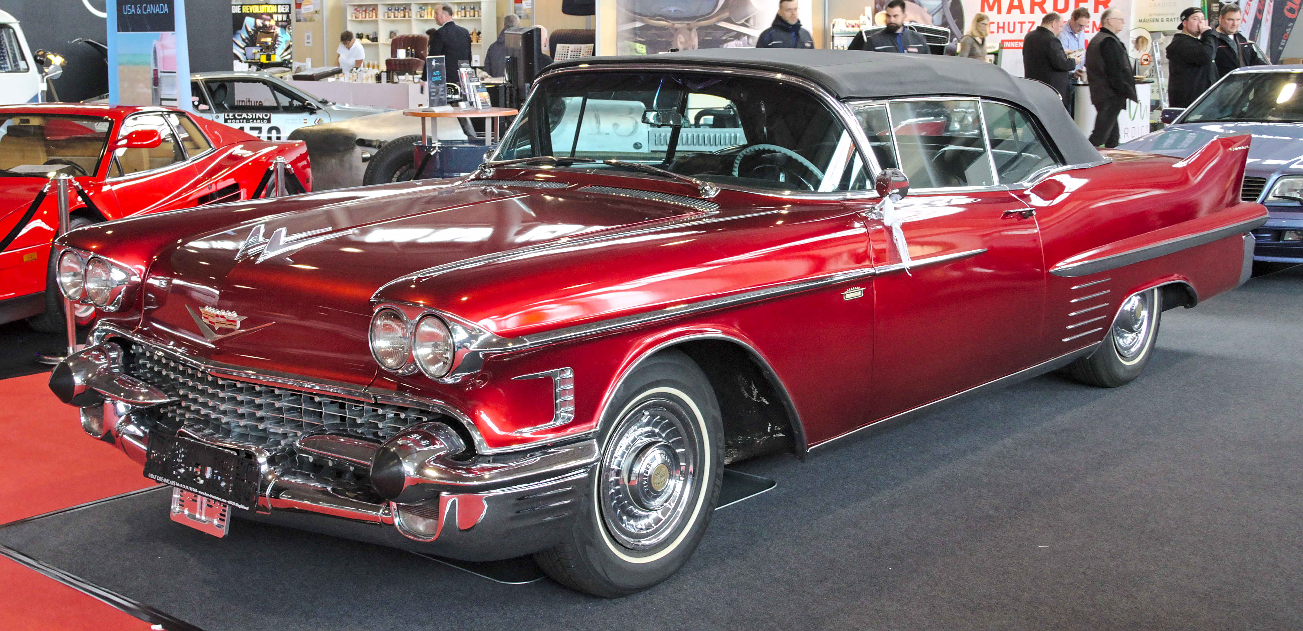 1958_Cadillac_Series_62_Convertible at Retro Classics 2020